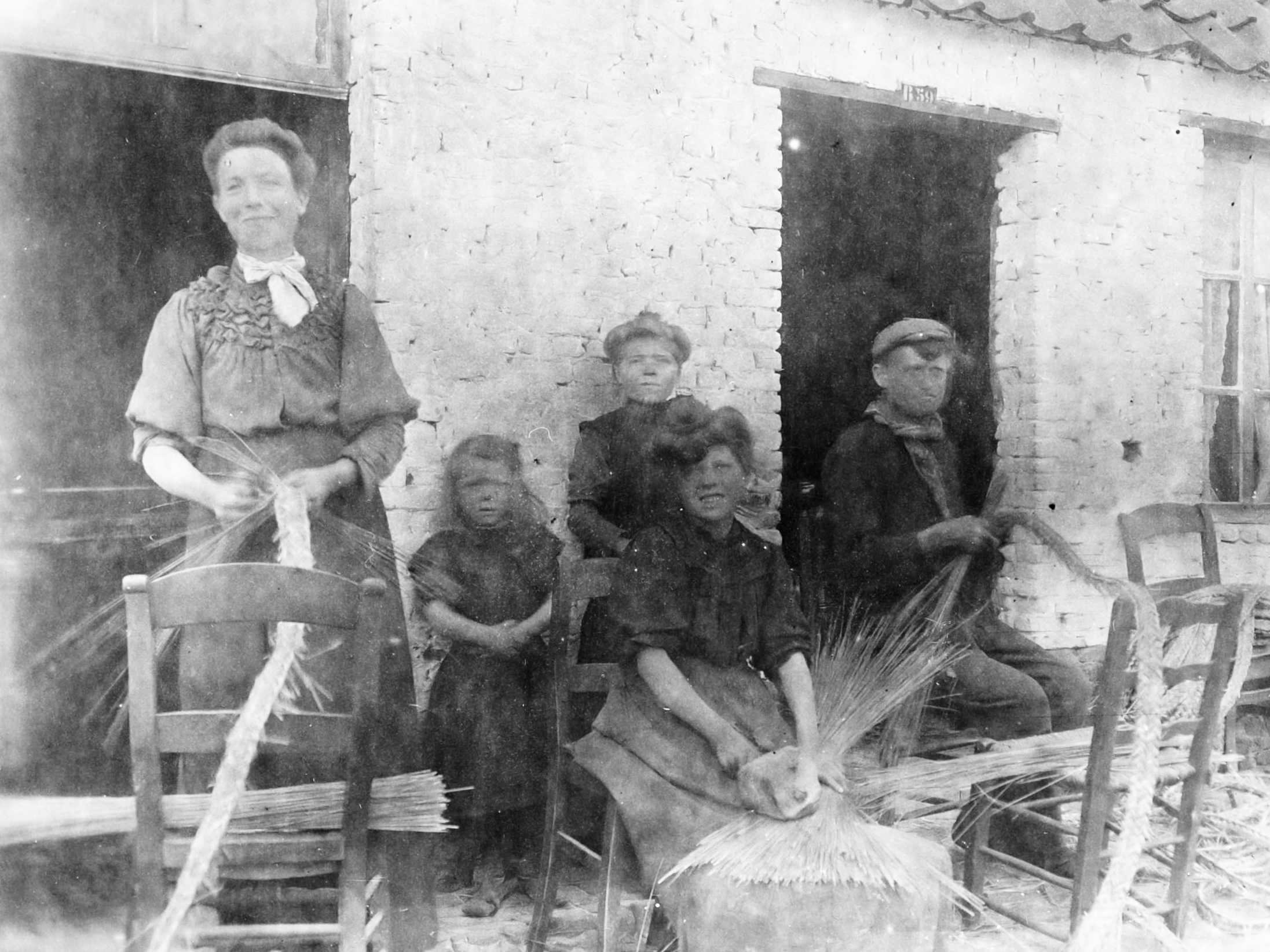 Reed braiders at work